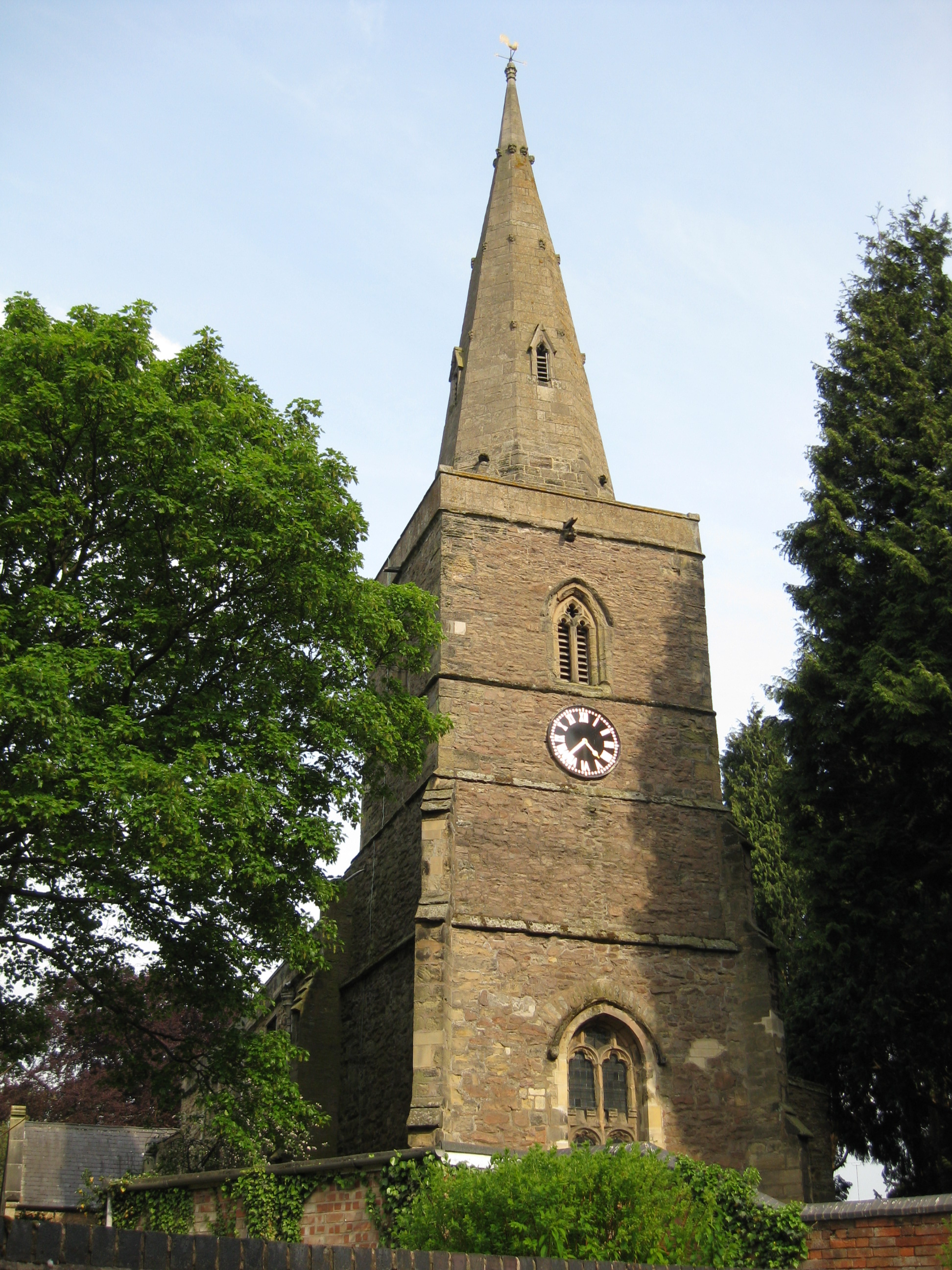 West tower and spire of All Saints' parish church, Church Street, Blaby, Leicestershire